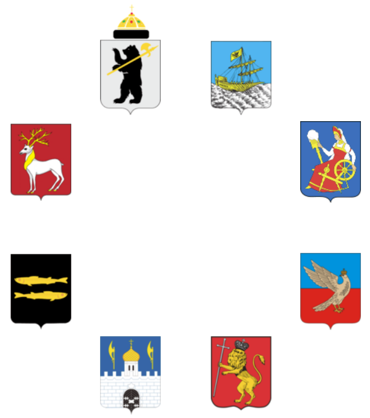 Golden Ring of Russia (Coat of Arms Ring)